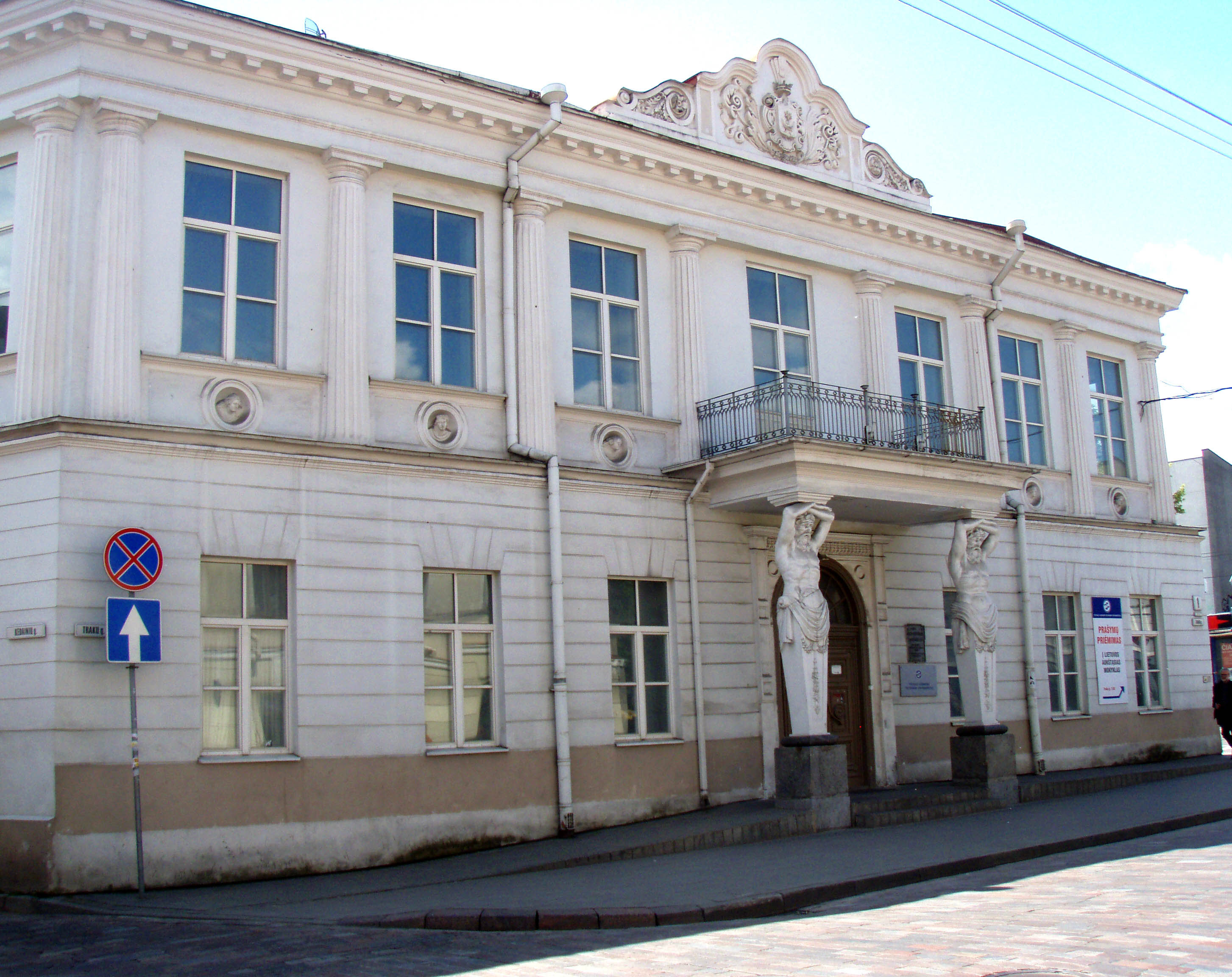 Vilnius Gedeminas technical university, architecture faculty, Lithuania